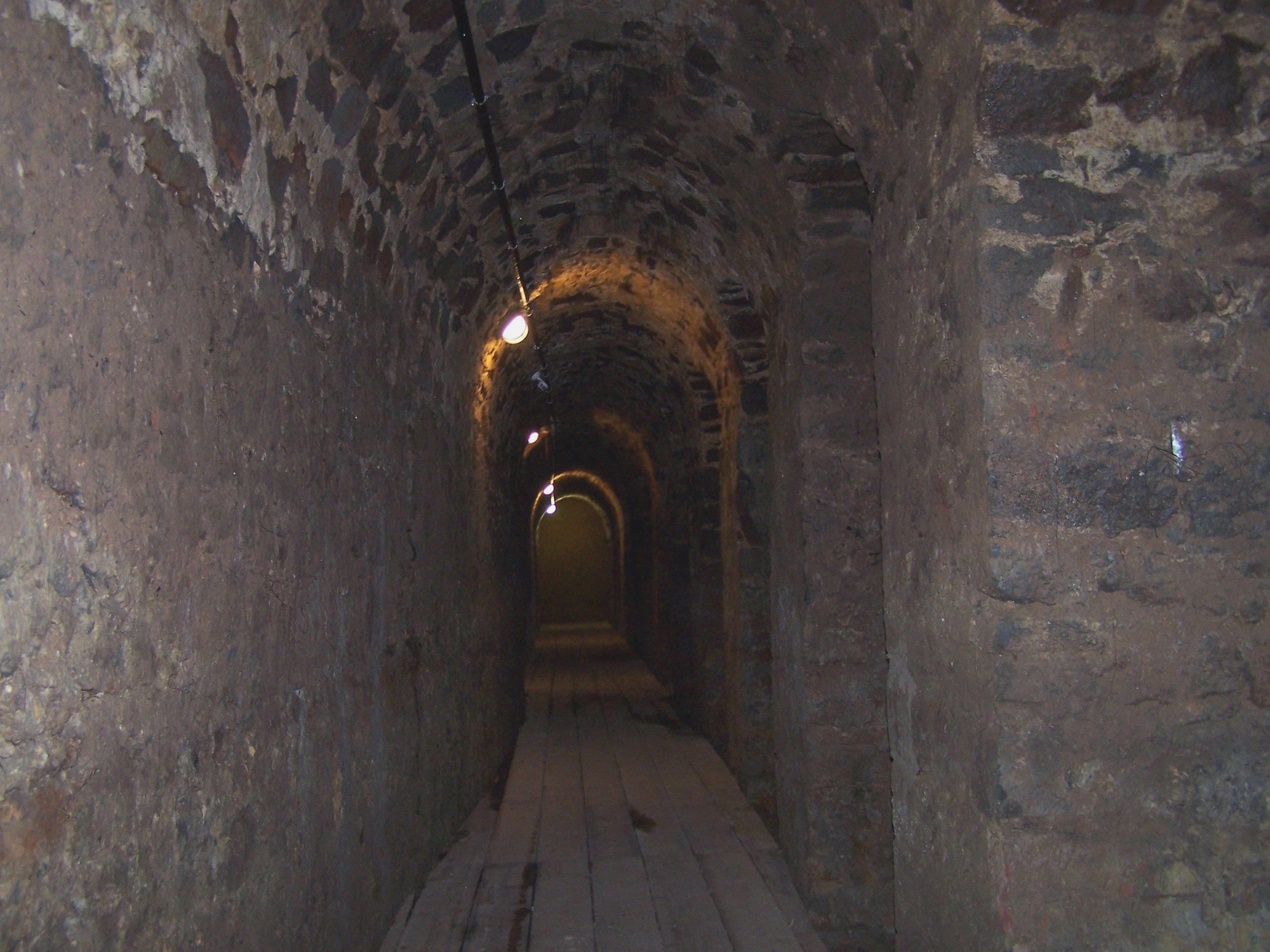 casemates beneath the town fortification in Frankfurt-Innenstadt, Bleichstraße